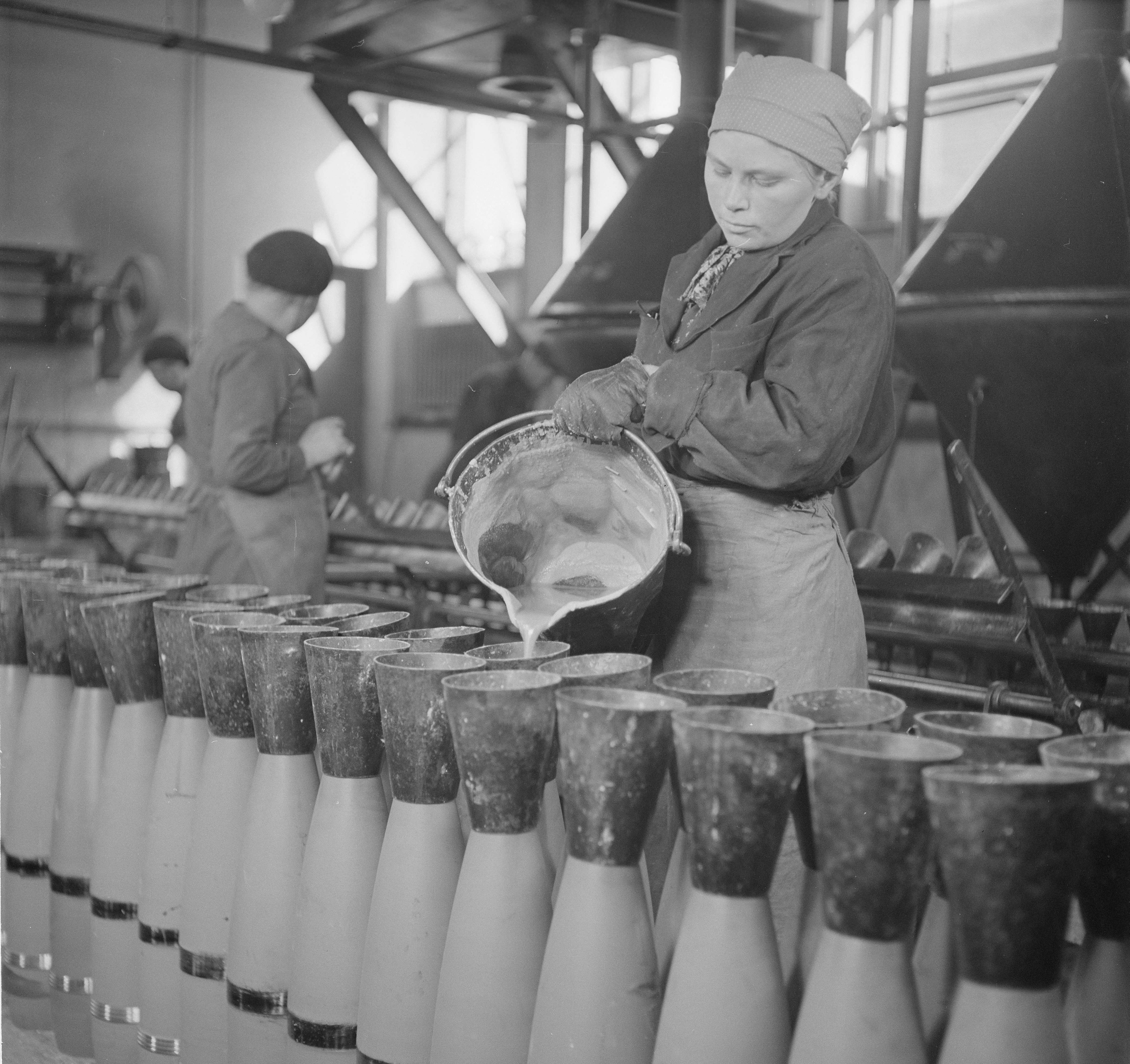 152 mm shell production in Finland - filling with amatol.